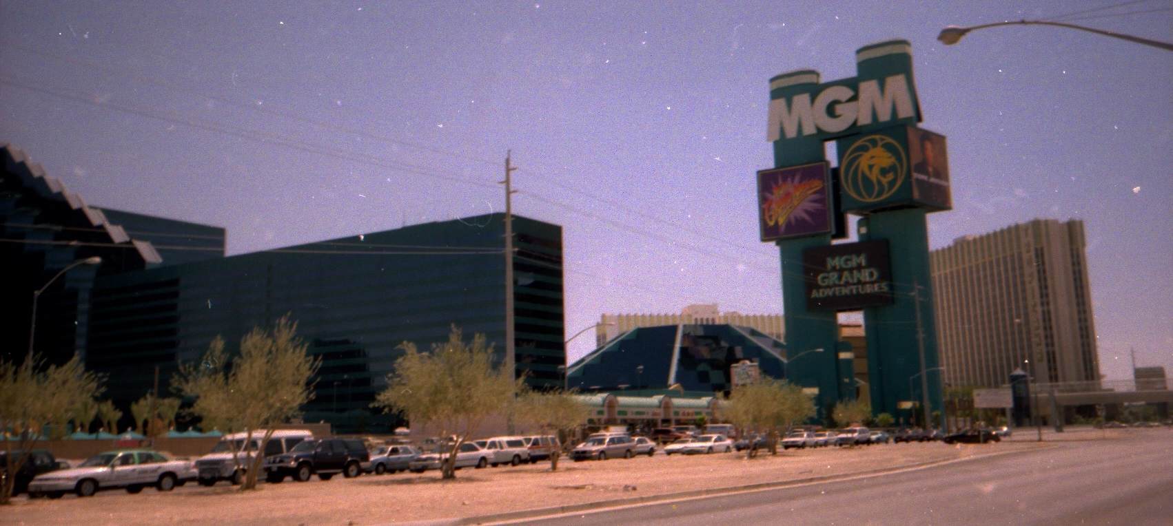 MGM Grand 1994